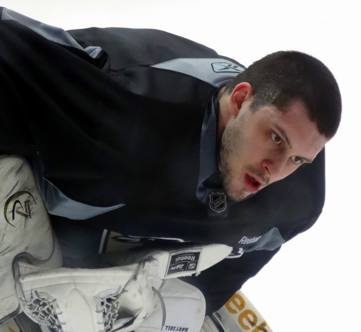 Pittsburgh Penguins goaltender Eric Hartzell practices with the team at the Iceoplex at Southpointe in Canonsburg, PA, April 26, 2013.